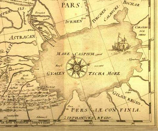 Map of Muscovy (the so-called Fedor Godunov map) (Caspian sea with Derbent, Baku (Baca))